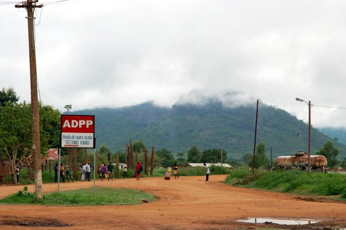 A street in Cuamba, Mozambique.